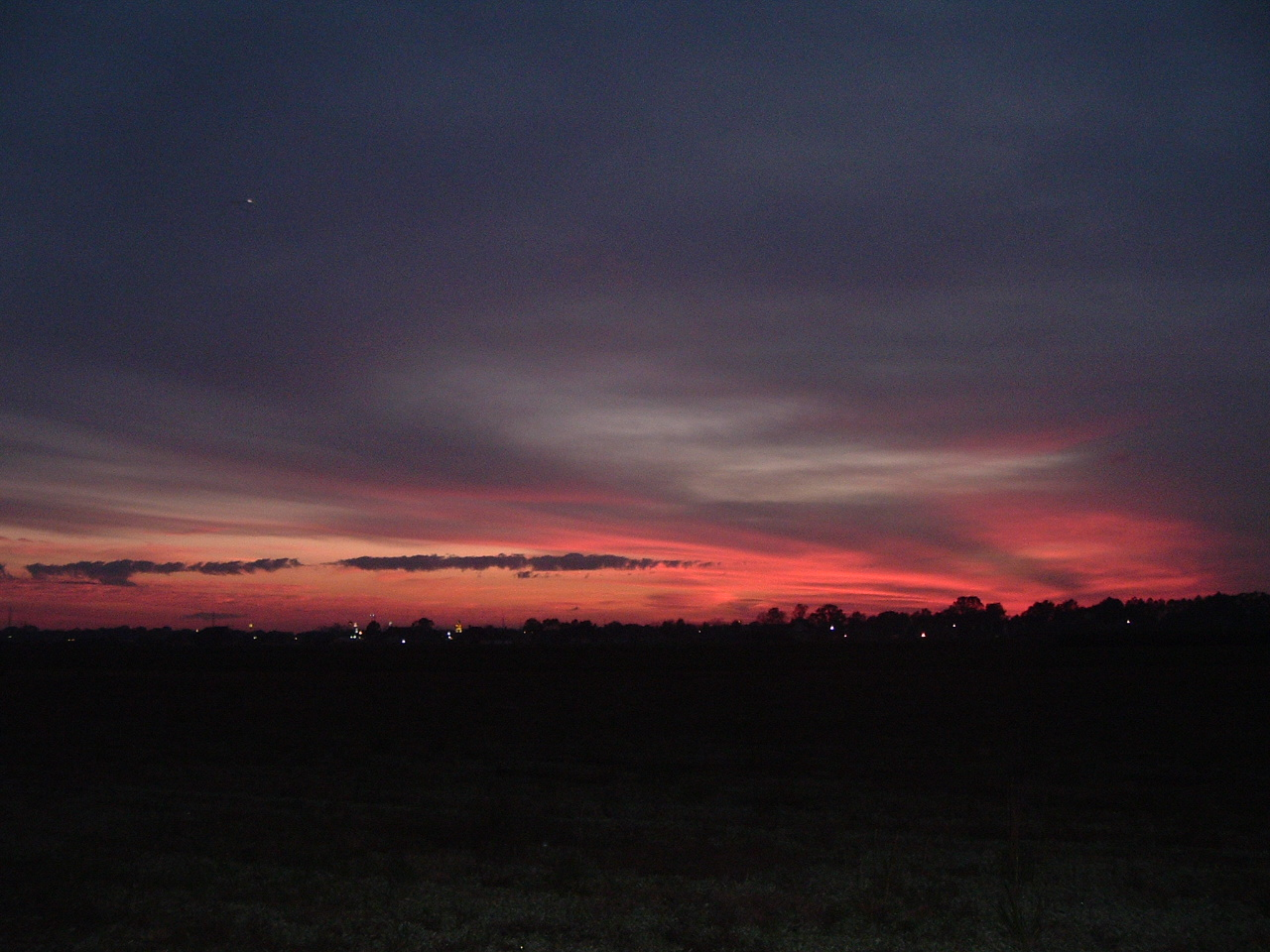 Dusk in Breaux Bridge, LA. Taken by me (boarder8925) on 11/26/2004.